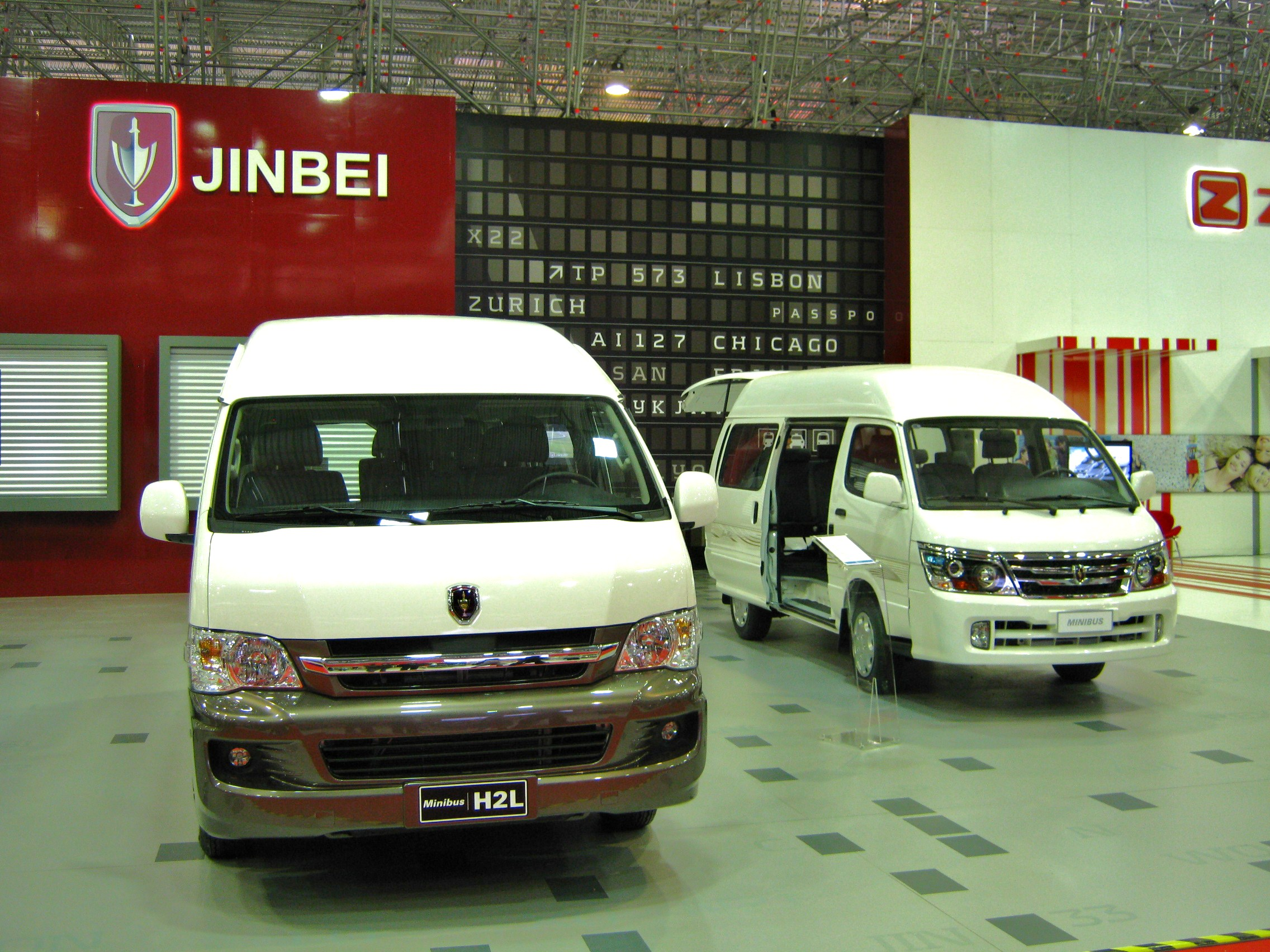 Jinbei minibus and van on Santiago Motorshow 2010